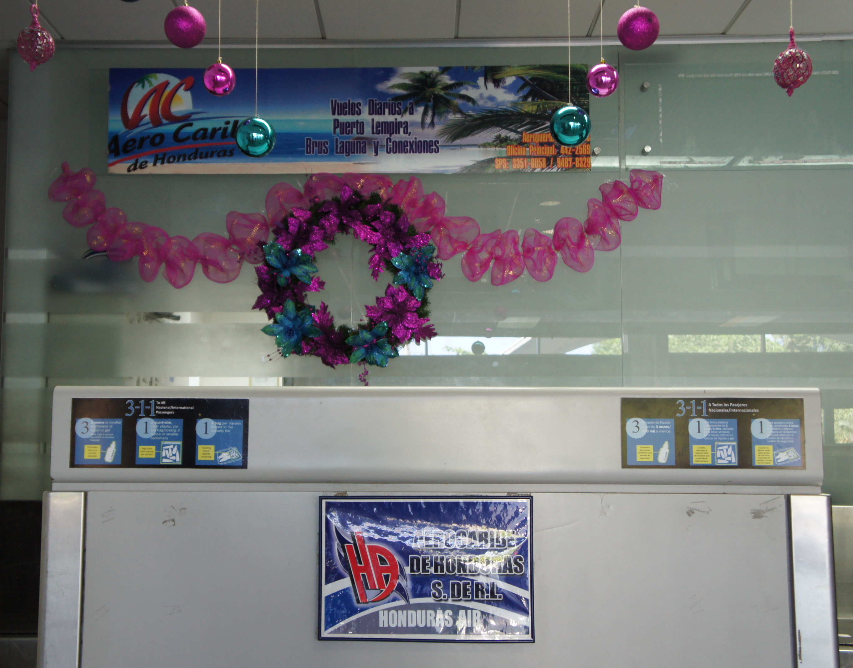 AeroCaribe de Honduras checkin counter, San Pedro Sula, November 2011